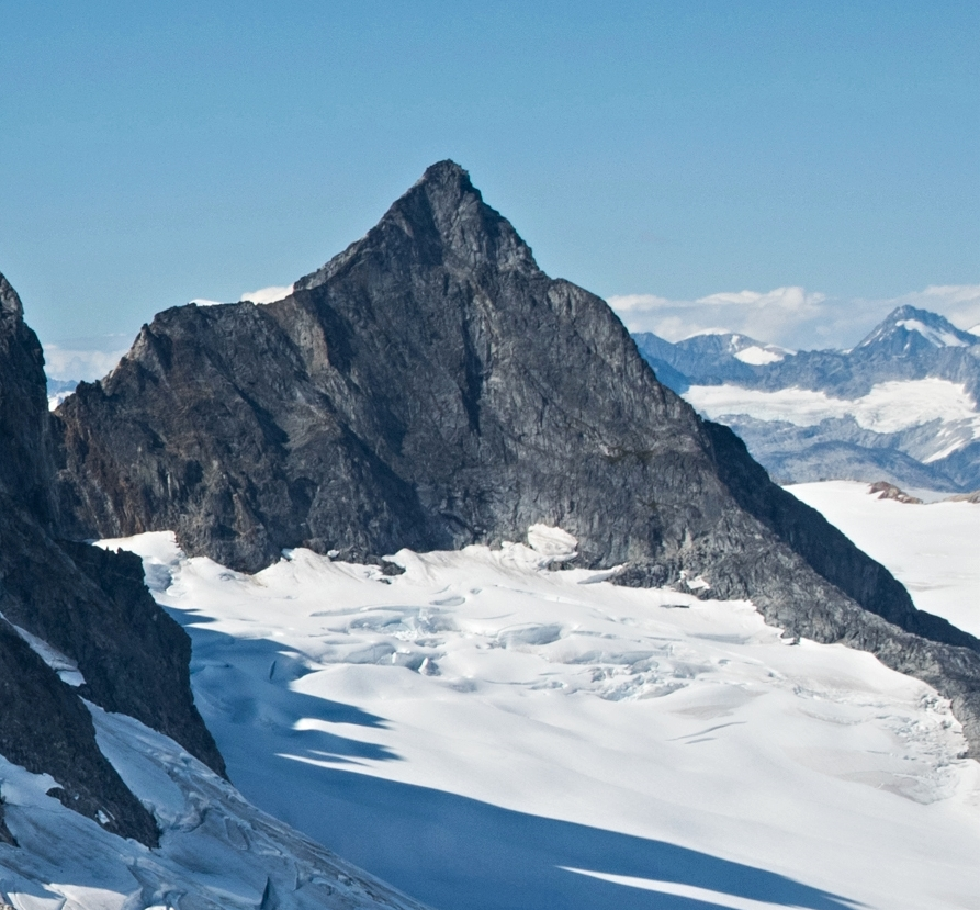 Looking north at south aspect of Cathedral Peak at Juneau Icefield